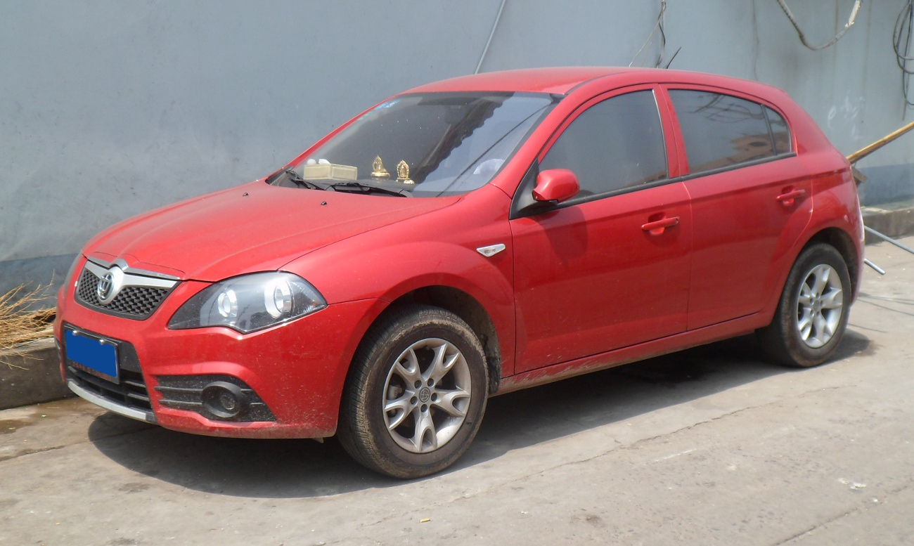 Brilliance Junjie FRV facelift photographed in Shanghai, China.